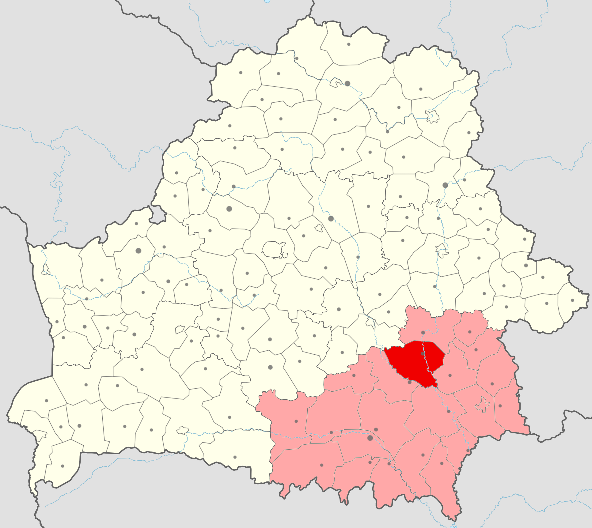 Location of Žlobinski rajon (red) in Homieĺskaja voblasć (light red) in Belarus.